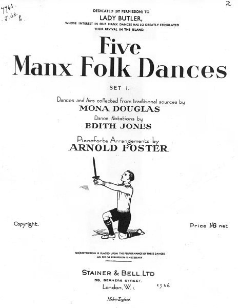 'Five Manx Folk Dances' collected by Mona Douglas and set to music by Arnold Foster